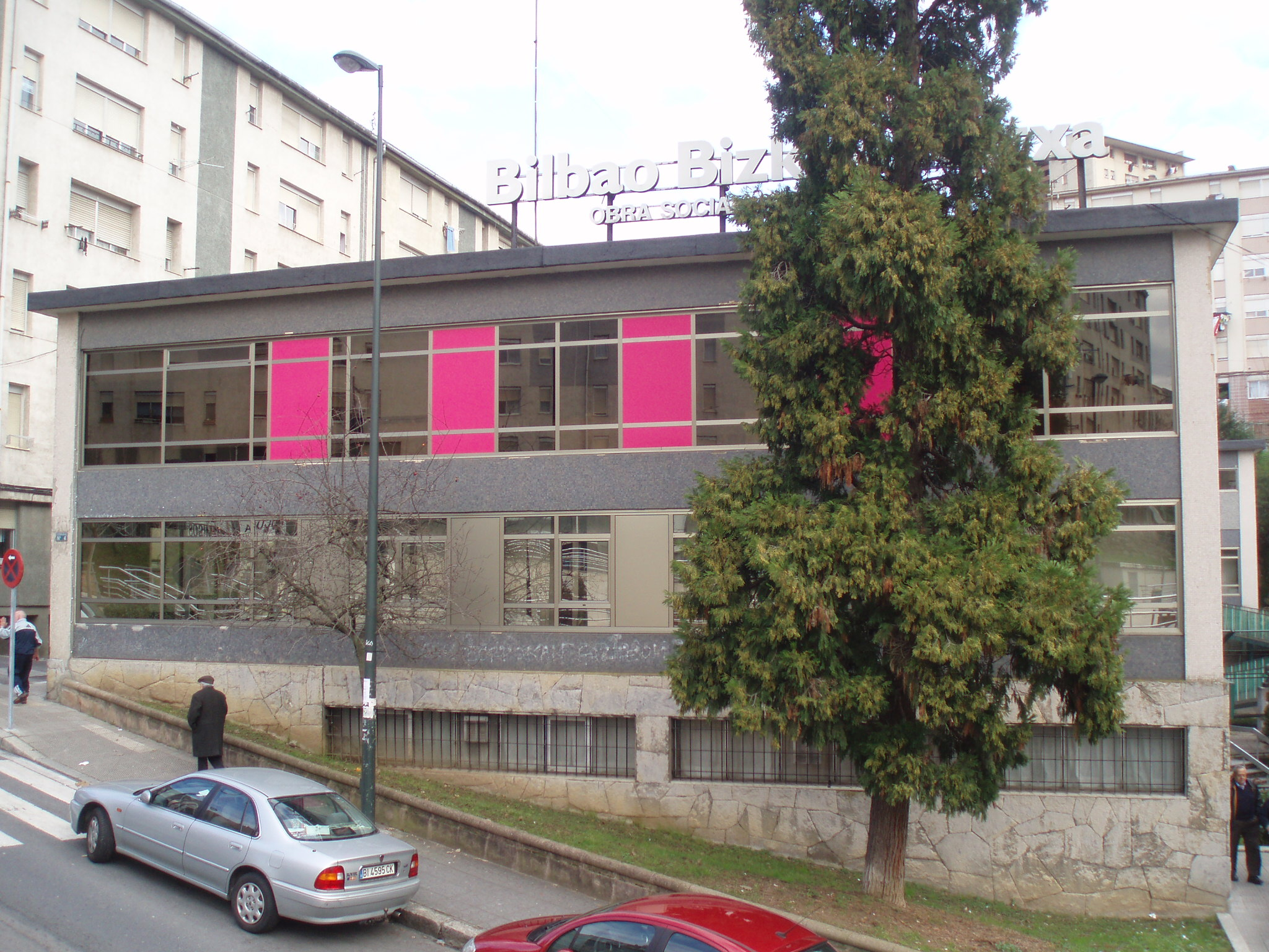 Senior center of Otxarkoaga (Bilbao).